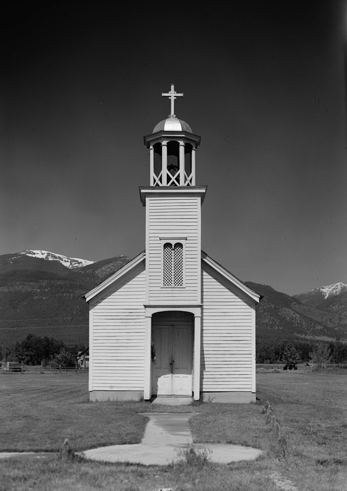 Front view of St. Mary's Roman Catholic Mission, located along North Avenue in Stevensville, Ravalli County, Montana, United States. Together with an attached pharmacy, the church (built in 1866) is listed on the National Register of Historic Places as St. Mary's Church and Pharmacy.